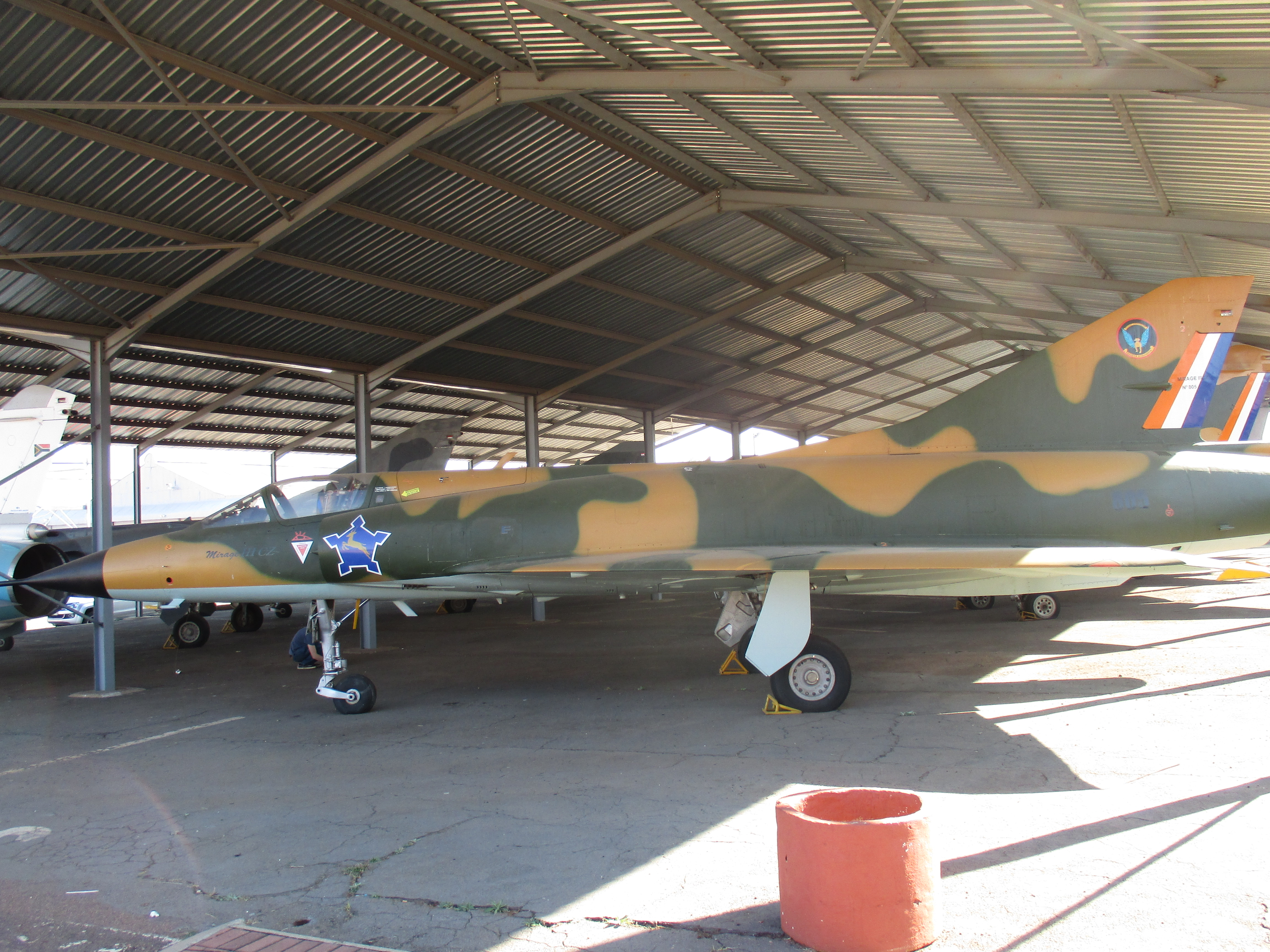 Description: Dassault Mirage III at the South African Air Force Museum in Swartkop AFB, Pretoria.